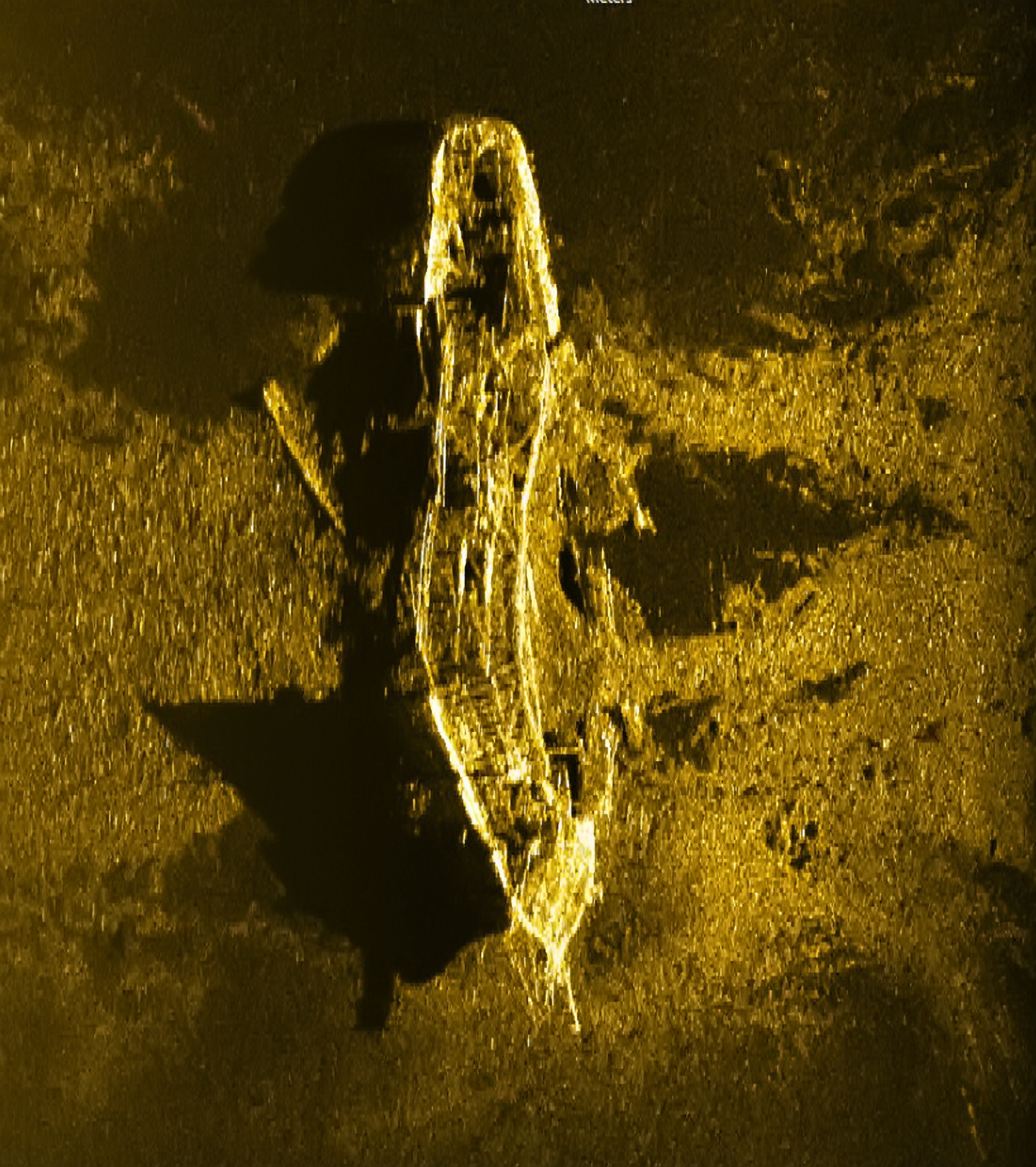 Image of a shipwreck produced by side-scan sonar on an autonomous underwater vehicle operated from the MV Havila Harmony. The shipwreck was discovered in December 2015 during the search for Malaysia Airlines Flight 370 in the Southern Indian Ocean. It is the second shipwreck discovered during the search for Flight 370.